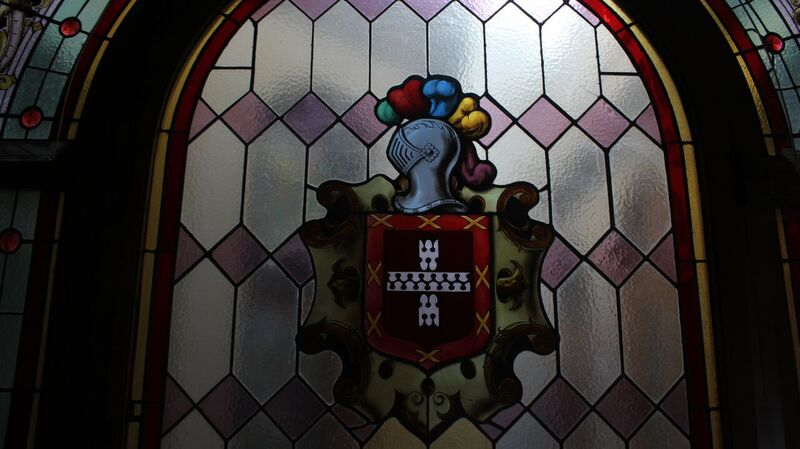 Vitral escudo